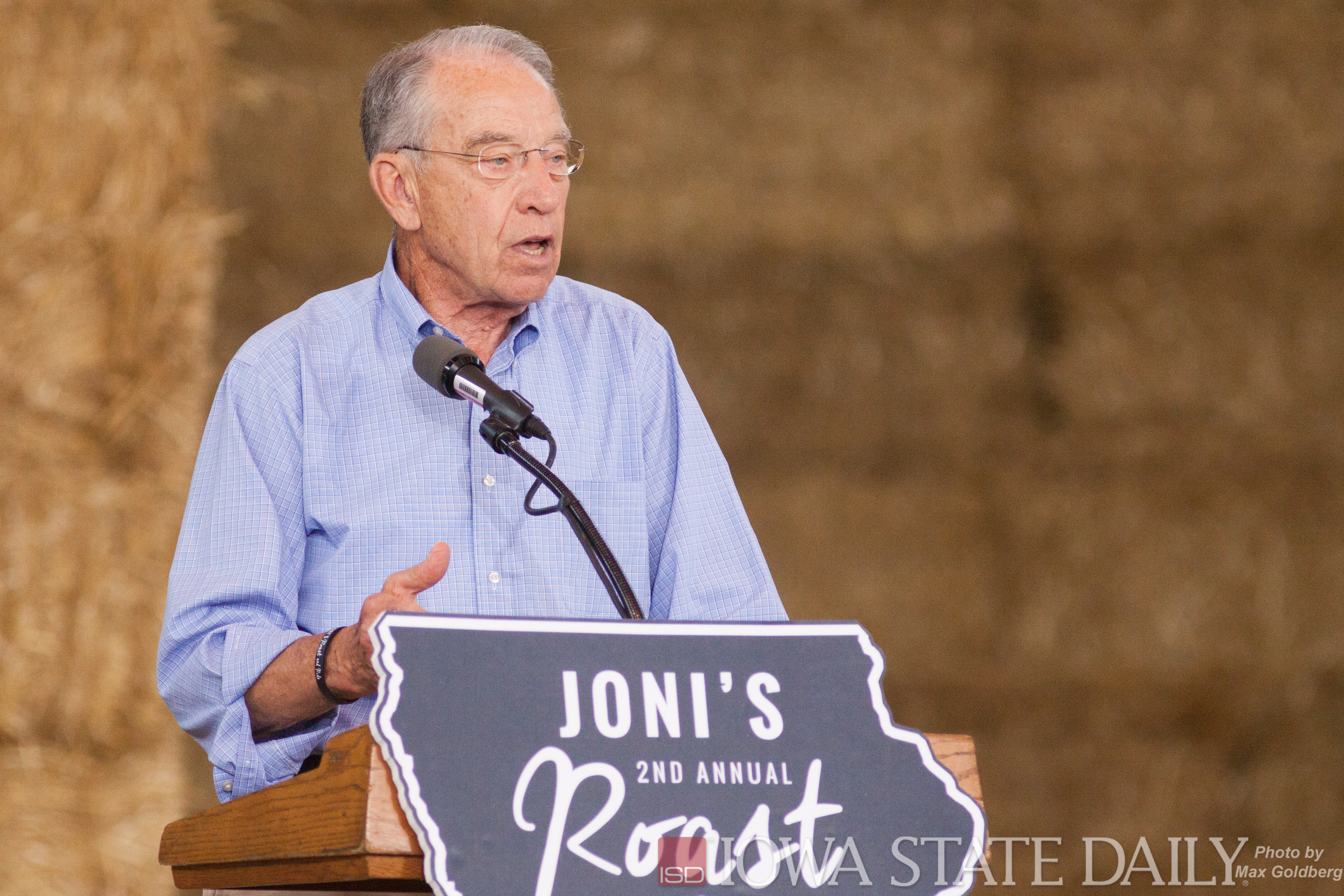 Sen. Chuck Grassley at 2016 Roast and Ride, hosted by fellow Sen. Joni Ernst. This image contains digital watermarking or credits in the image itself. The usage of visible watermarks is discouraged. If a non-watermarked version of the image is available, please upload it under the same file name and then remove this template. Ensure that removed information is present in the image description page and replace this template with Metadata from image or Attribution metadata from licensed image . Caution: Before removing a watermark from a copyrighted image, please read the WMF's analysis of the legal ramifications of doing so, as well as Commons' proposed policy regarding watermarks. If the old version is still useful, for example if removing the watermark damages the image significantly, upload the new version under a different title so that both can be used. After uploading the non-watermarked version, replace this template with Superseded|new filename|version without watermarks .